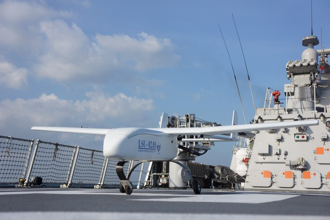 LAPAN LSU-02 before taking off from KRI Diponegoro